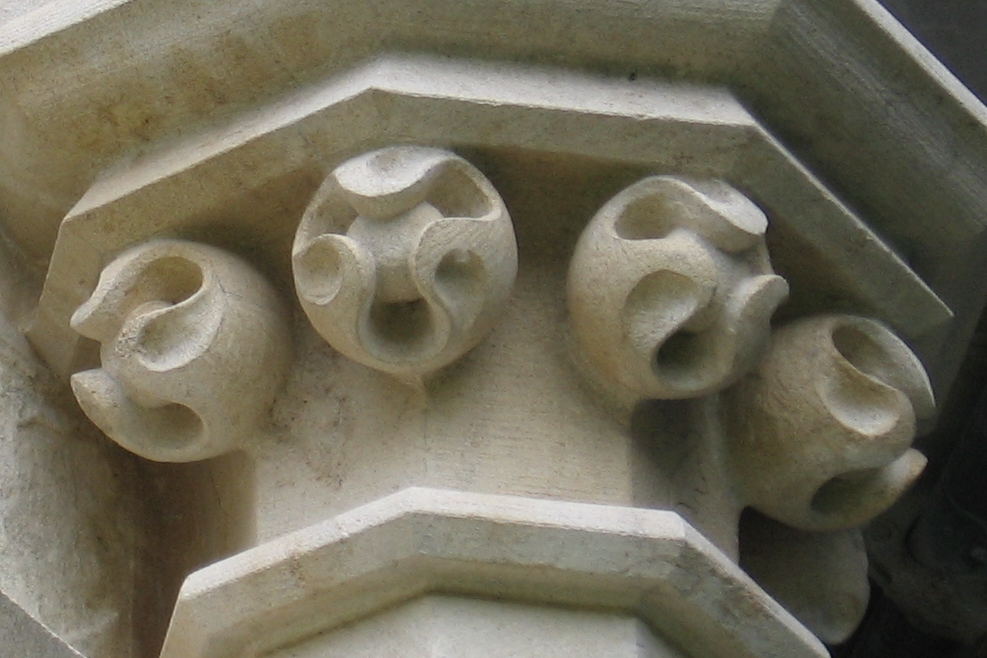 Newly carved ballflowers at Gloucester Cathedral.